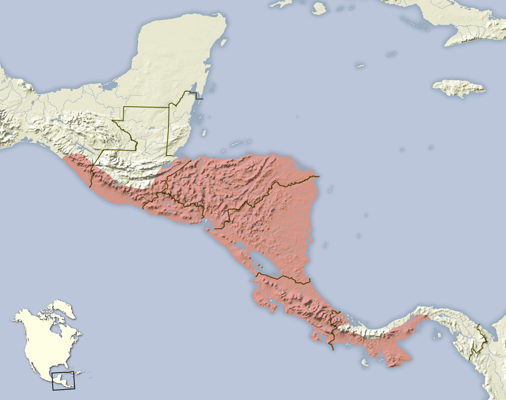 Distribution map of the variegated squirrel